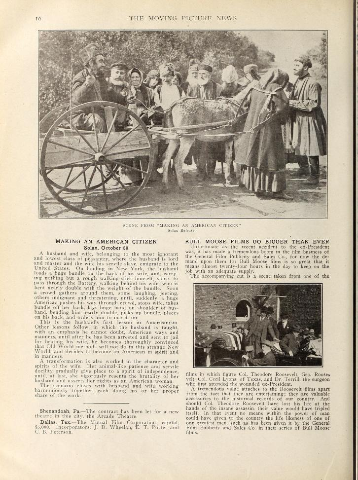 A scene from the film when the abusive husband Ivan Orloff, who forces his wife to pull the cart, meets a group of people who plan to emigrate to the U.S. and convince Ivan to join them.